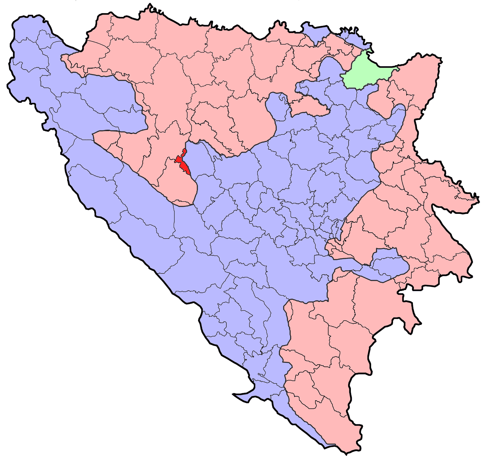 Location of Jezero municipality in Bosnia and Herzegovina.